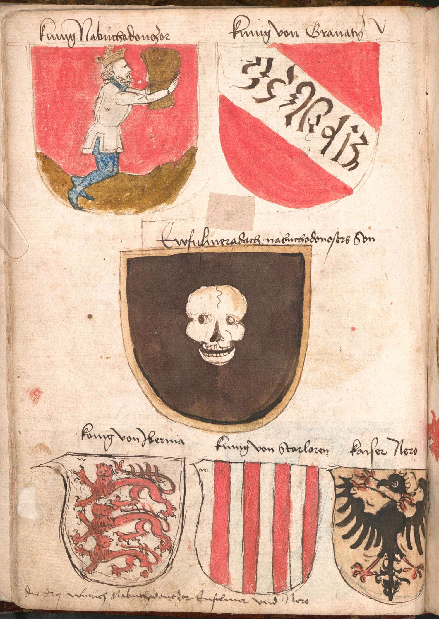 Includes attributed arms of Nebuchadnezzar and Antiochus Epiphanes, and a version of the (non-attributed) coat of arms of the Nasrid dynasty of Grenada (with garbled Arabic inscription).